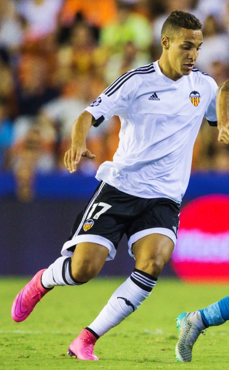 Rodrigo Moreno Machado